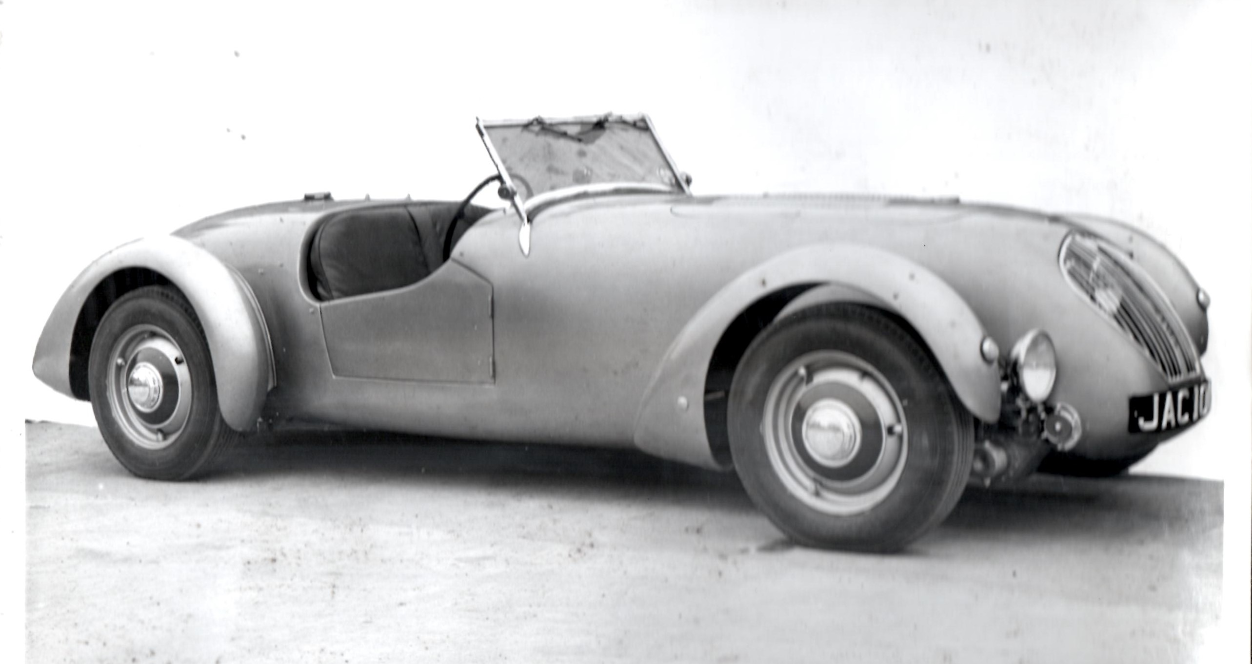 Healey Silverstone coachwork by Abbey Panels